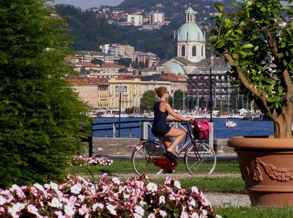 Como (Italy), the park of Villa Olmo.